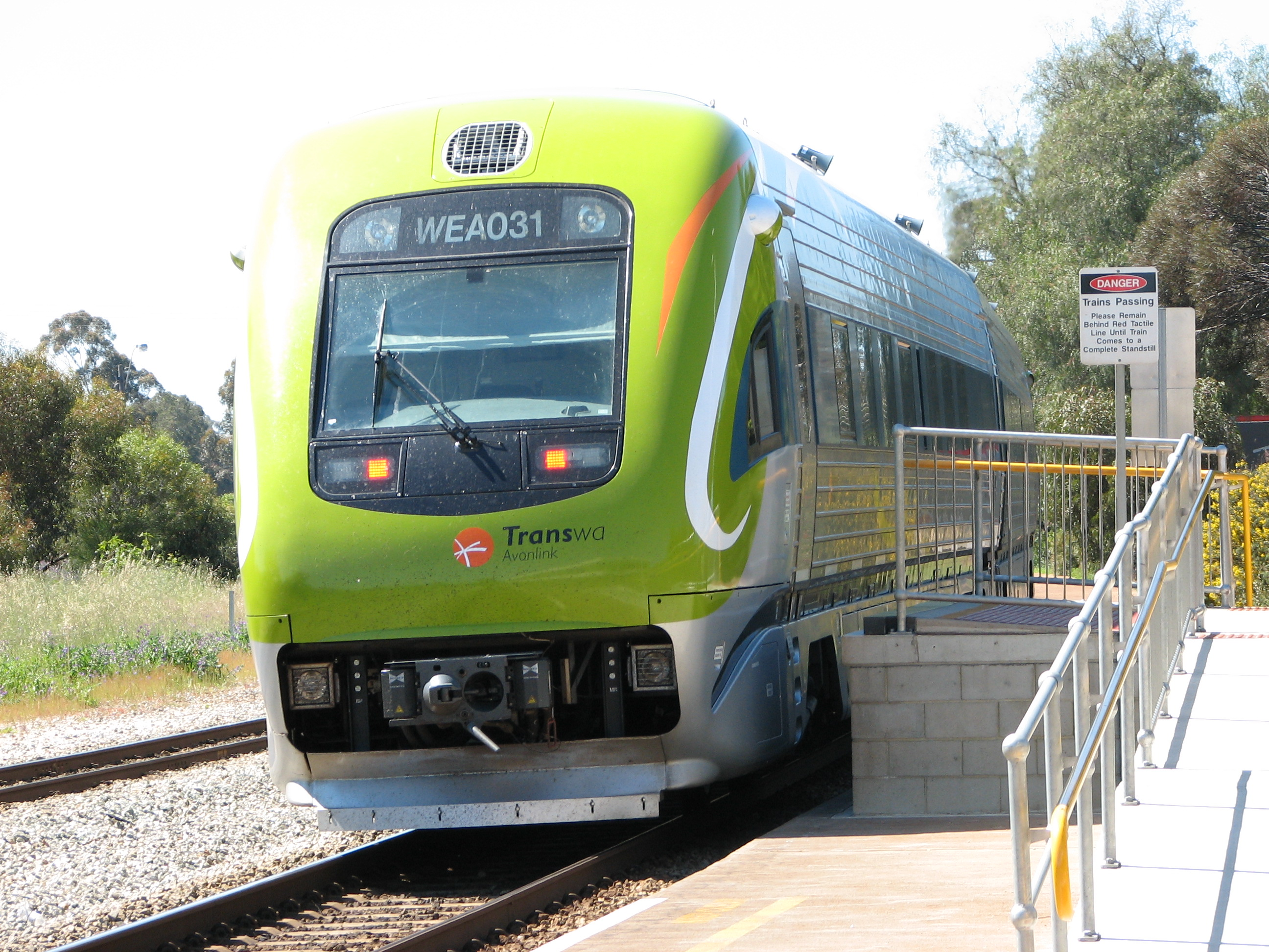 The Avonlink departs Northam en route to Merredin on Monday, 26th September 2005